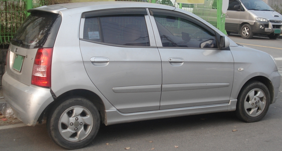 Kia Morning